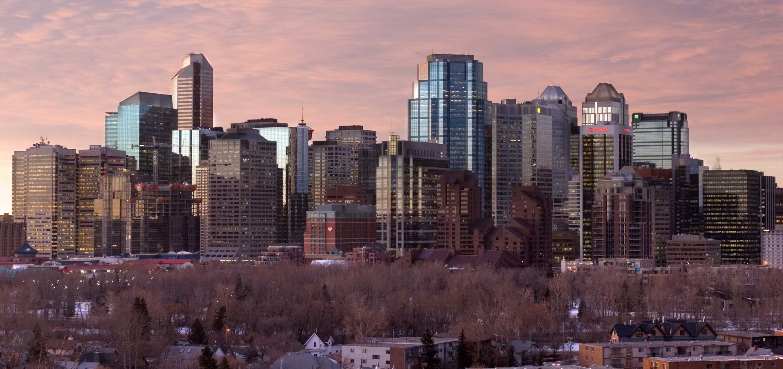 Calgary, Alberta at dawn looking south from Crescent Road. Photo by Chuck Szmurlo taken March 9, 2007 with a Nikon D200 and a Nikon 28-70 f2.8 lens.